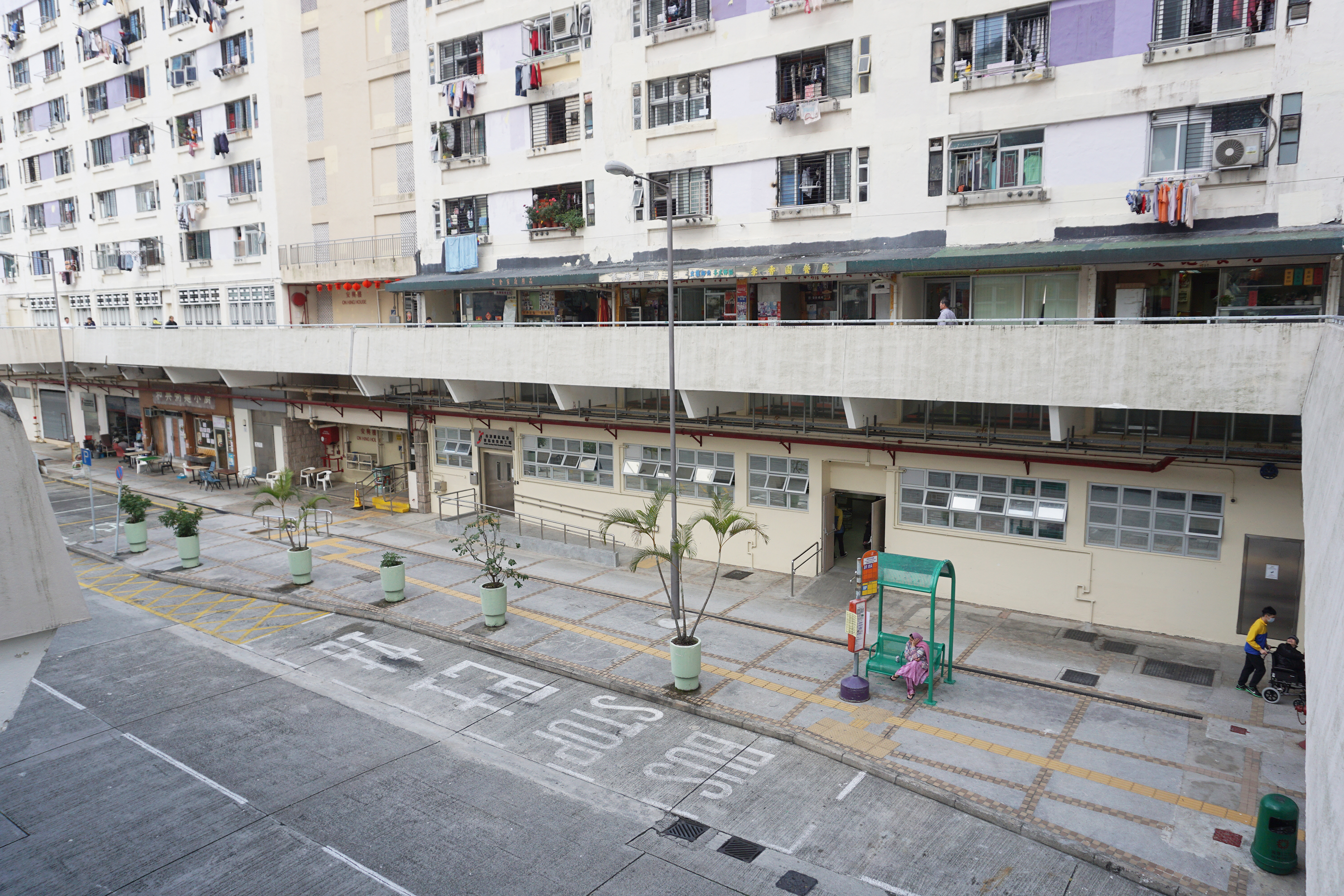 On Hing House in Chai Wan, Hong Kong.